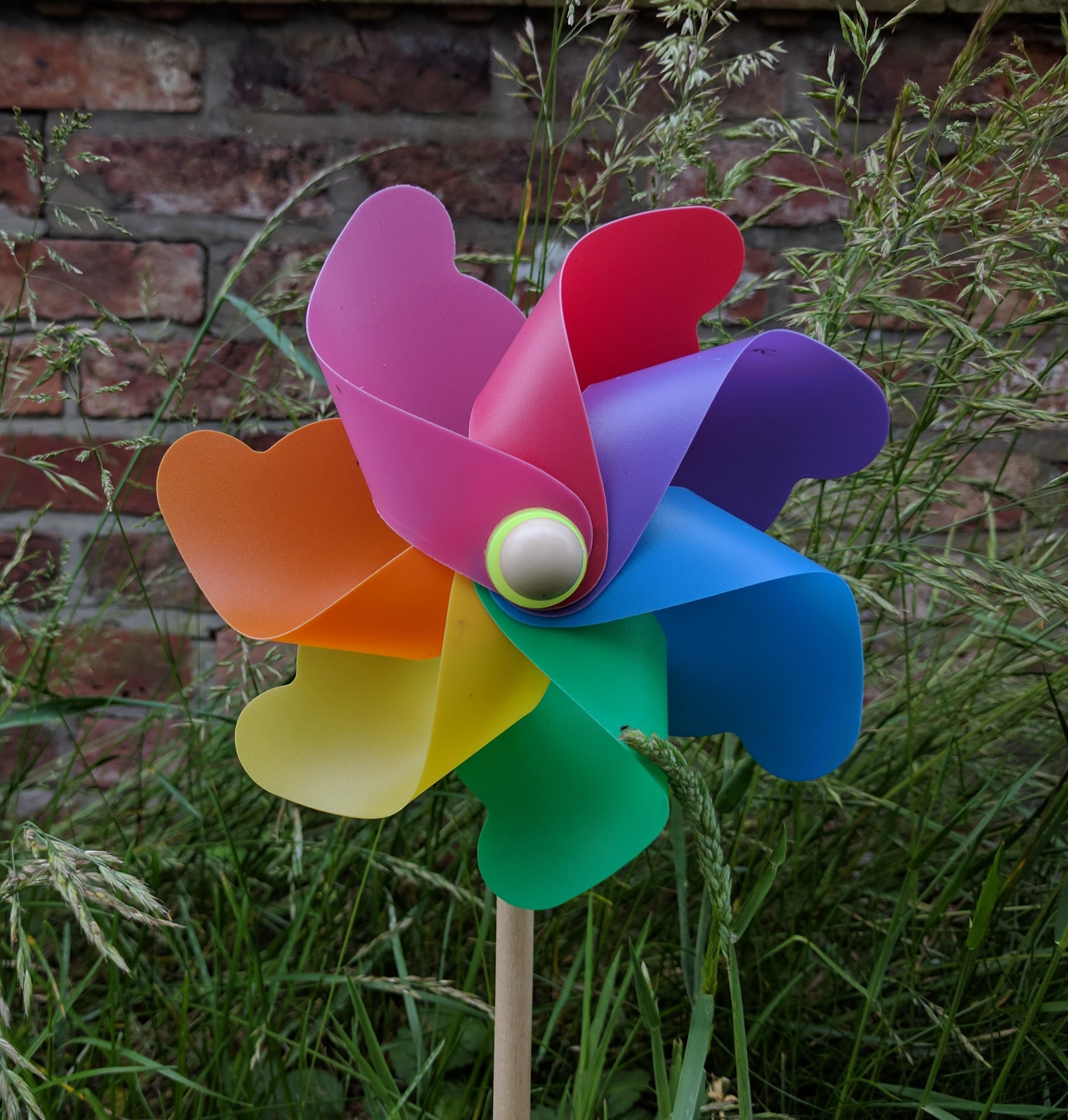 Pinwheel by the side of the road in the UK near York. – Tagged for neuroscience, vision, visual cortex as "pinwheel" is often used to name an analogous feature (organization of orientation tuning) in the visual cortex.